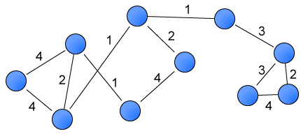 An example of a weighted network.